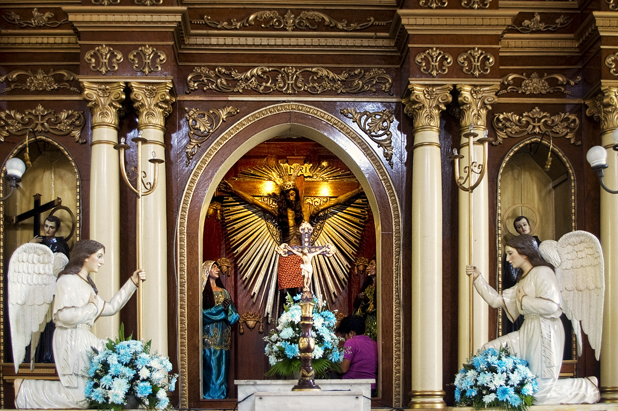 Altar of St Franciss of Assisi Church (Sariaya)